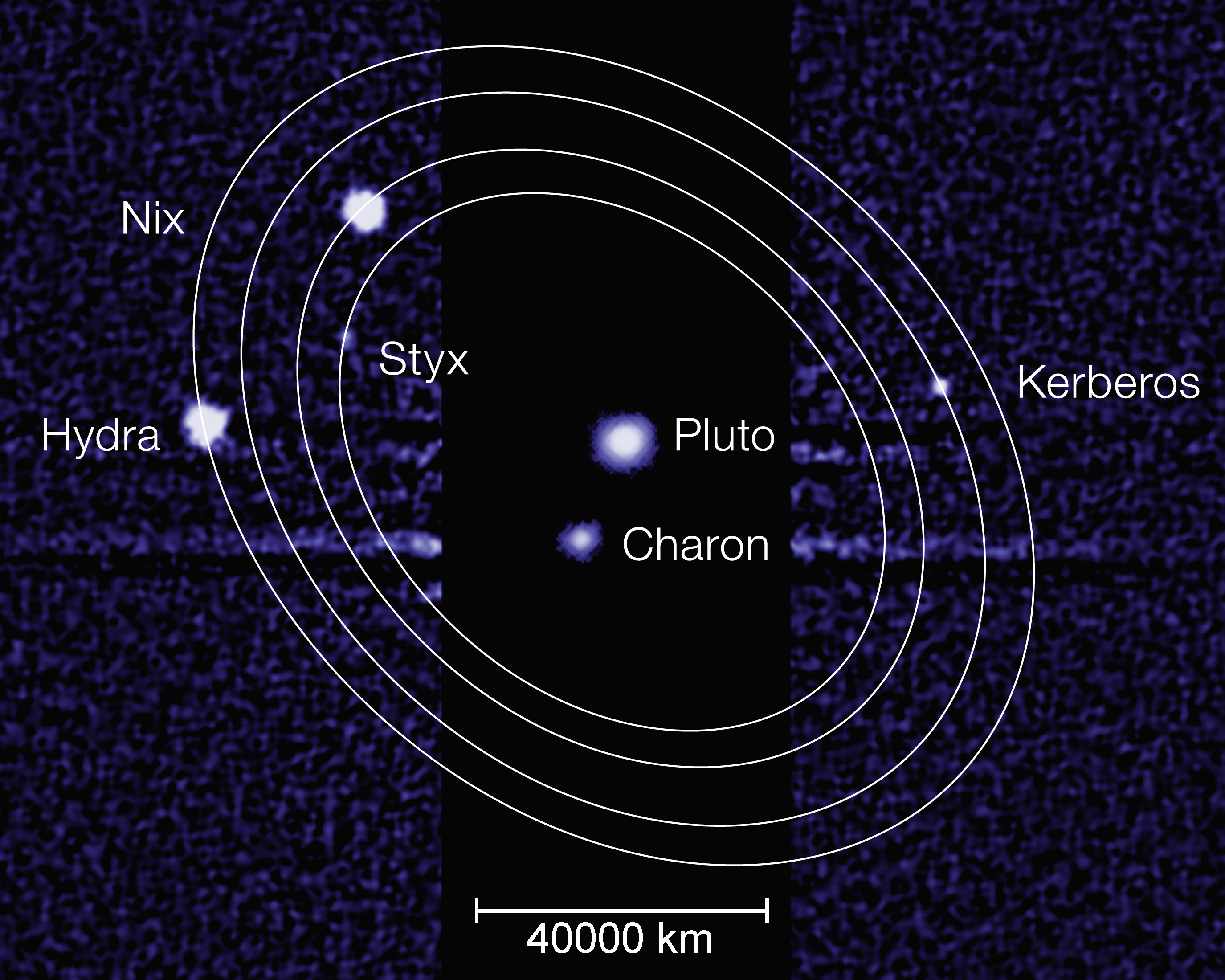 Hubble image showing the moons of Pluto, adding orbits, names and scale. The black stripe is because the exposure for pluto itself was much shorter than for the moons.